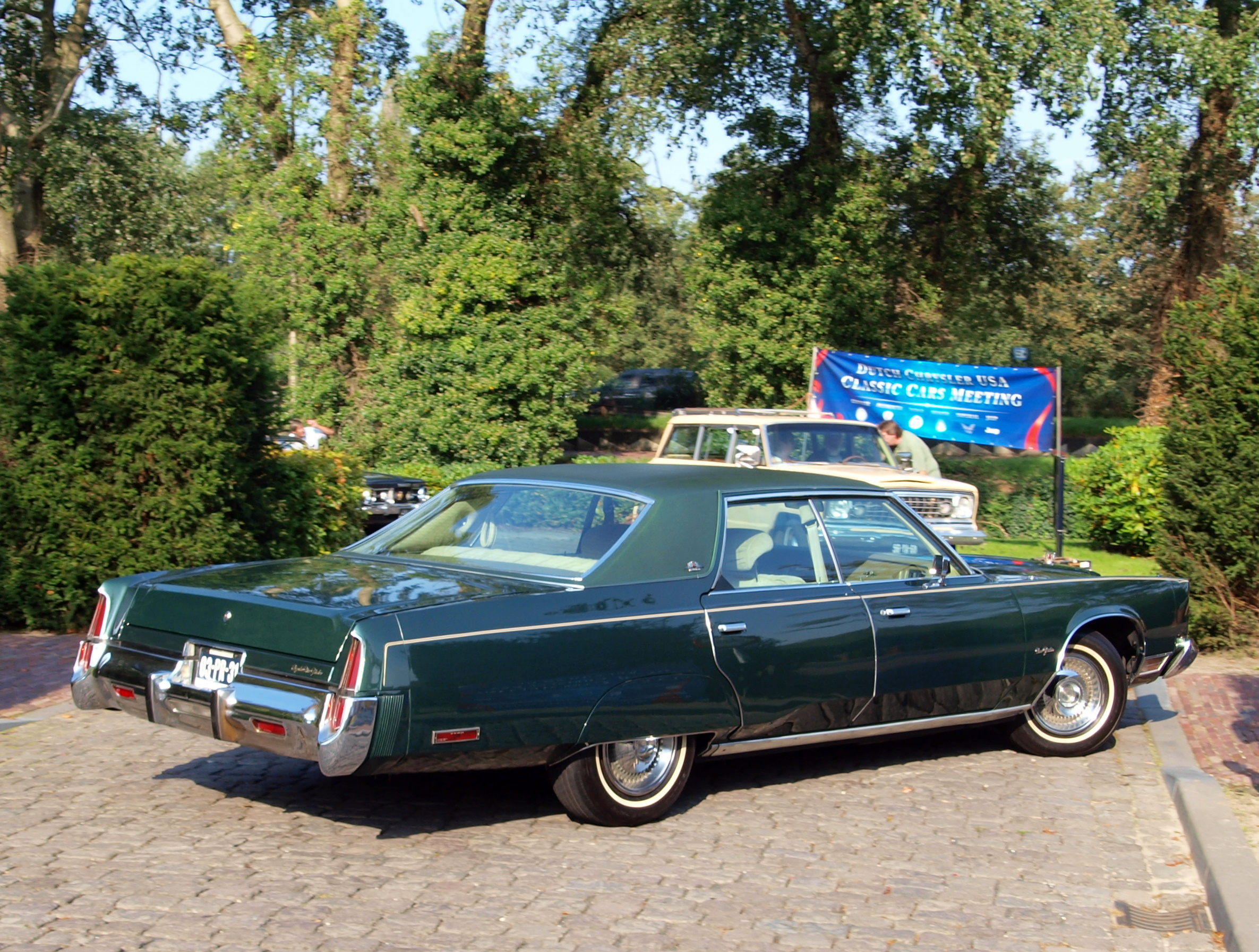 1976-1978 Chrysler New Yorker, photographed at the premises of the Louwman museum in The Hague, the Netherlands. OLYMPUS DIGITAL CAMERA